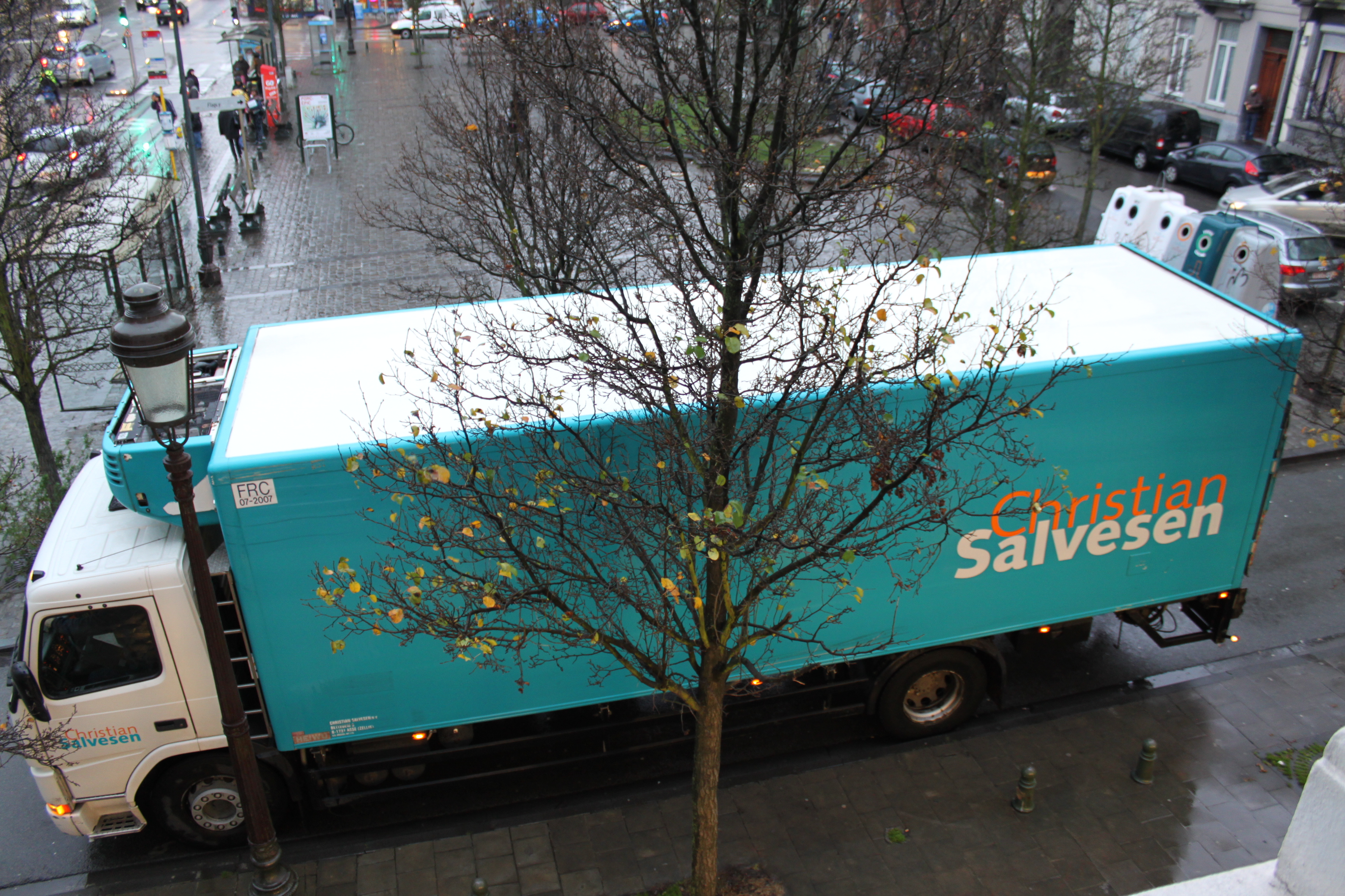 A lorry belonging to the Christian Salvesen transport and logistics company, now belonging to the Norbert Dentressangle transport group.